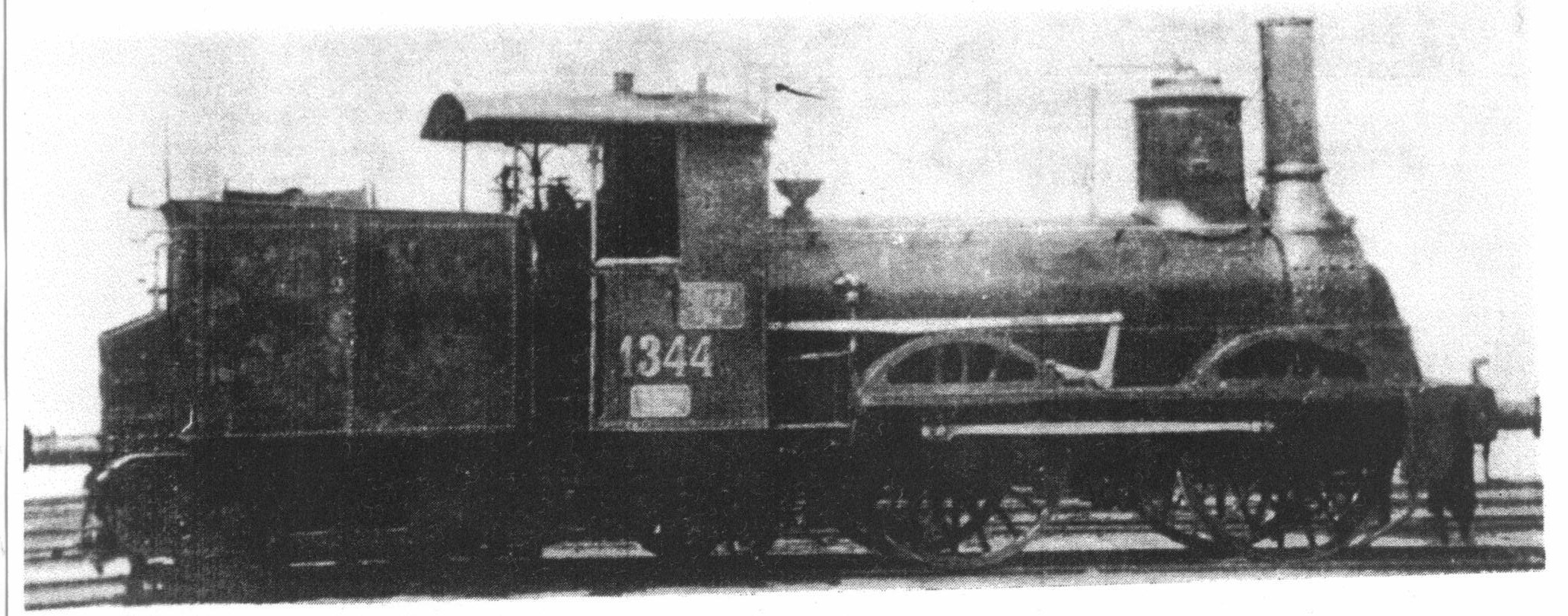 MÁV TIIA 1344